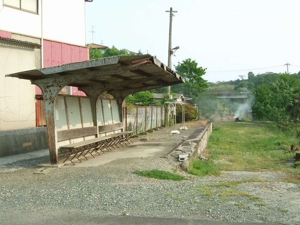 The ruin of Saida Station, Urushio Line